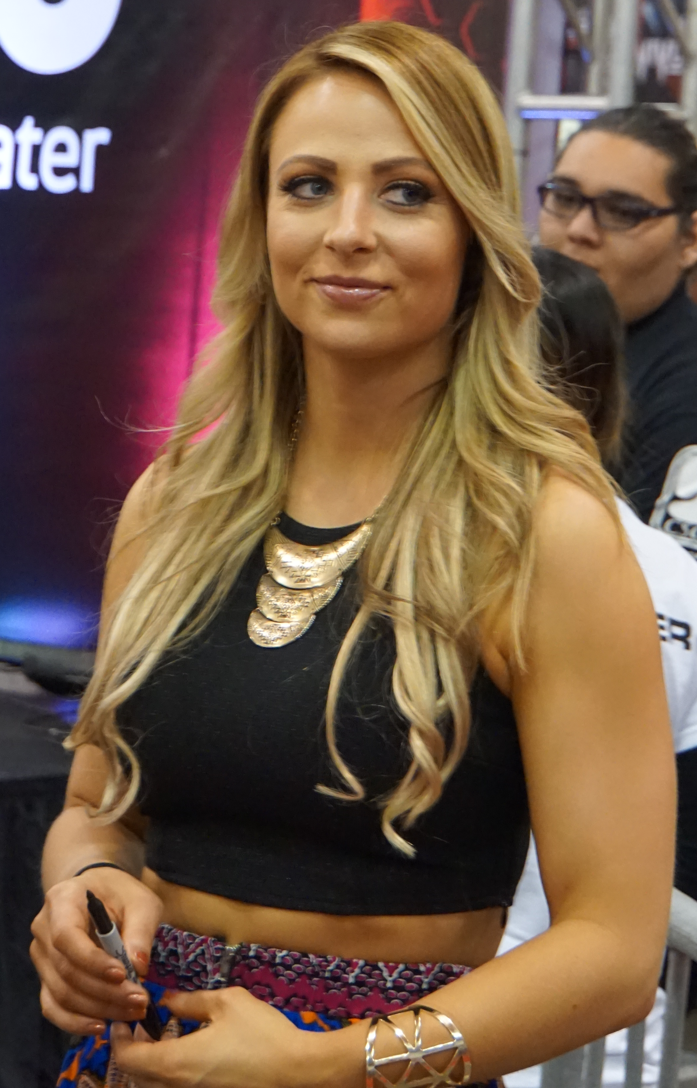 Emma at the 2015 WrestleMania Axxess in March.